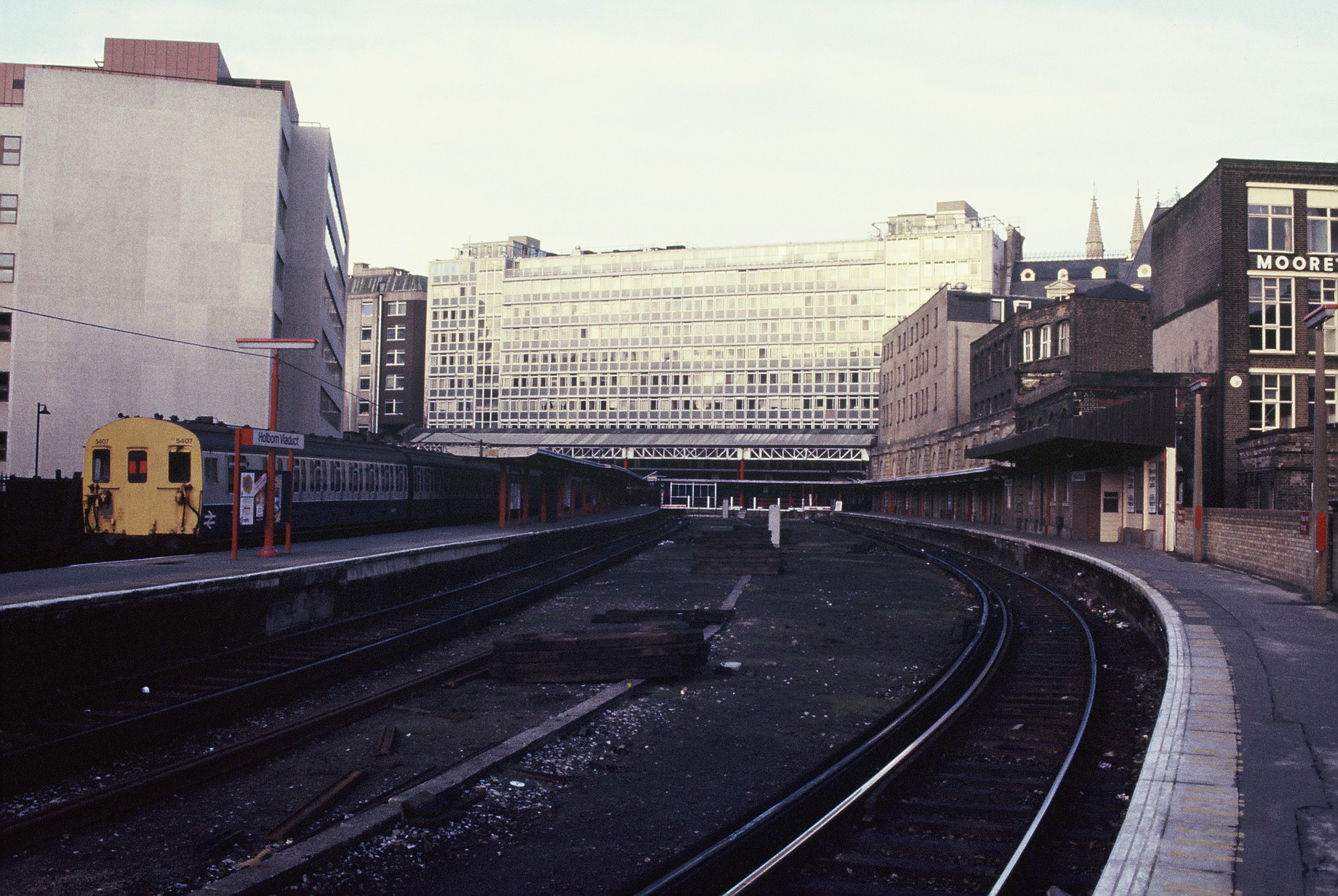 Class 414 No. 5407 at Holborn Viaduct railway station on 27 December 1985.